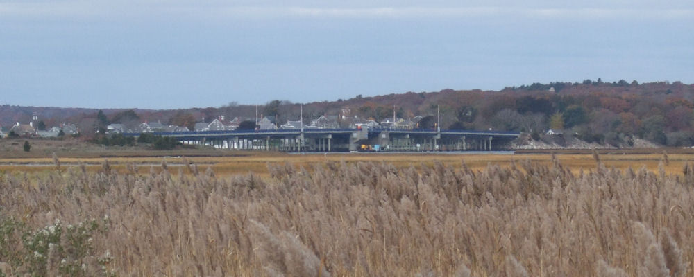 The Normand Edward Fontaine Bridge, as viewed from Horsneck Beach State Reservation.